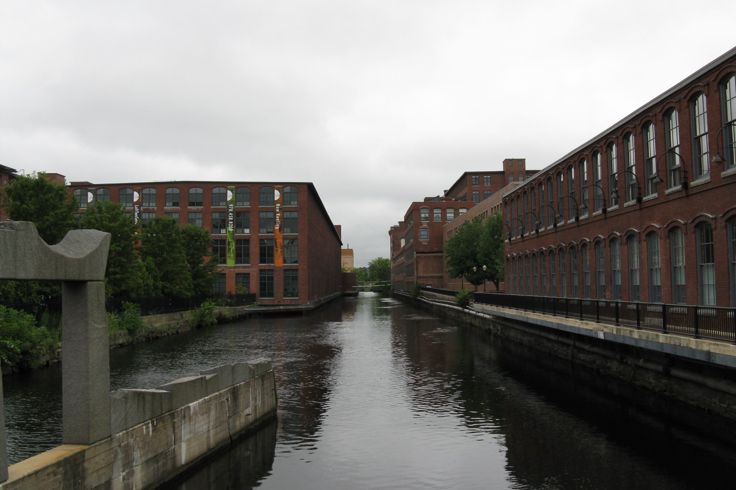 Pawtucket Canal at Central St looking west, Lowell Massachusetts